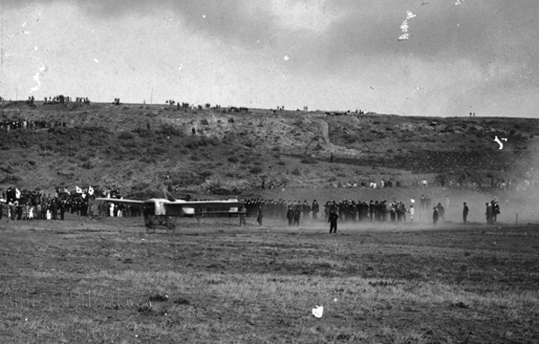 Leonce Garnier and his Blériot XI in Gran Canaria